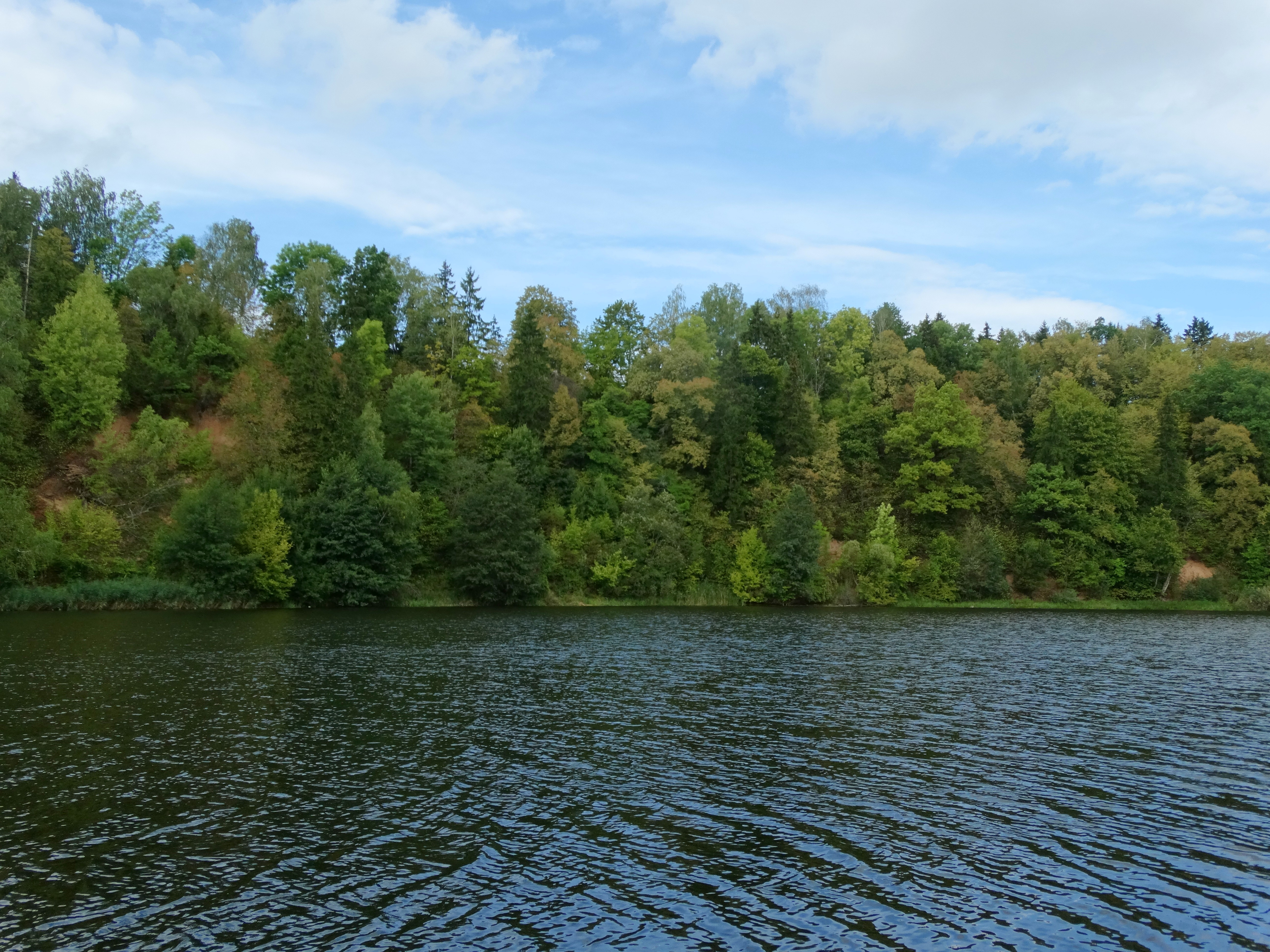 Strėva outcrop, Kaišiadorys district, Lithuania